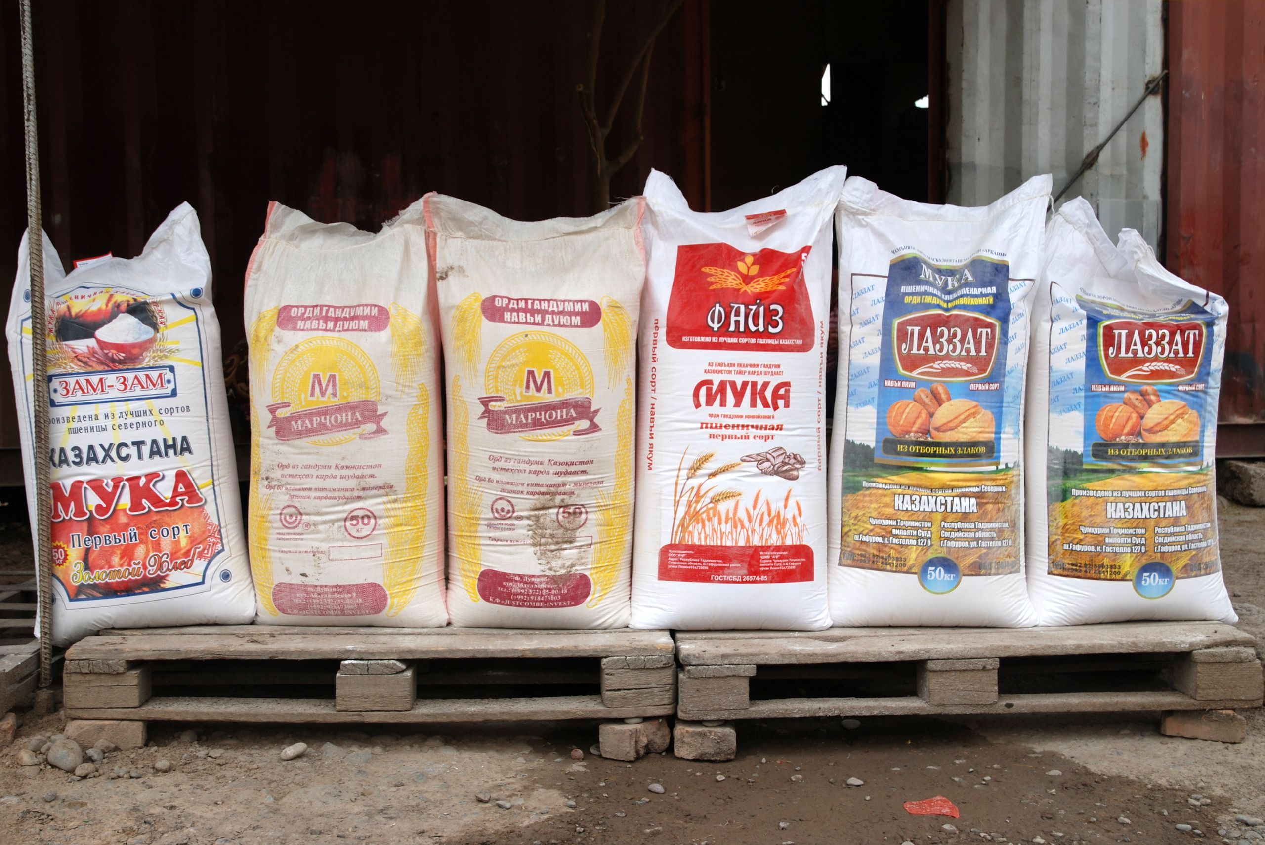 Kulob, wheat